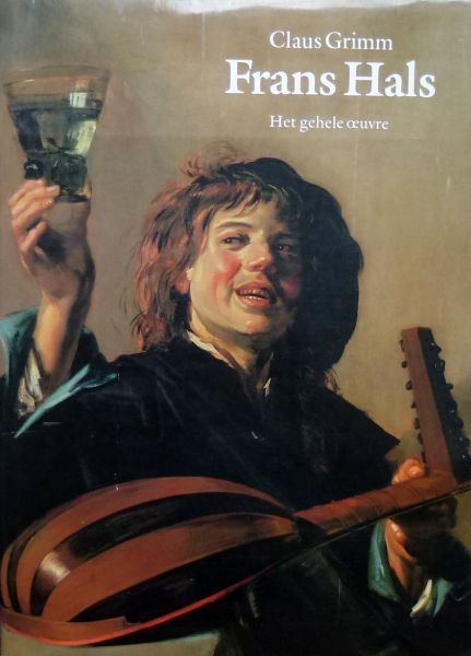 Detail of boy with a glass and a lute used as the cover of Claus Grimm's catalog of Frans Hals paintings in 1989.